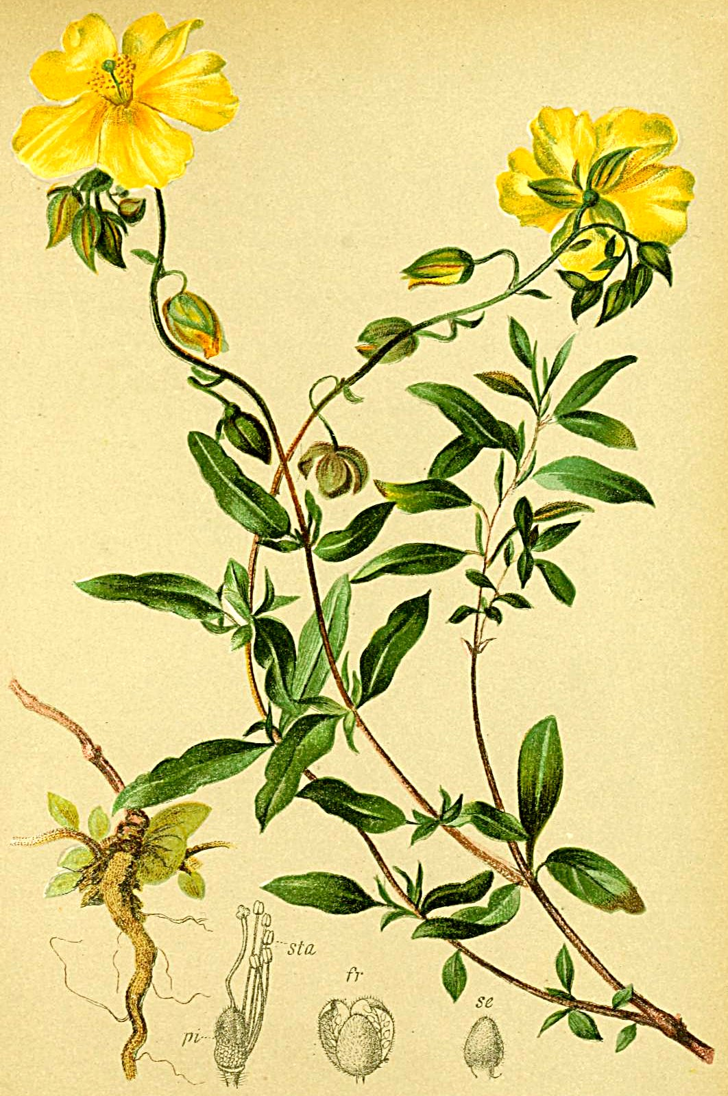 Helianthemum grandiflorum (Helianthemum serpyllifolium)